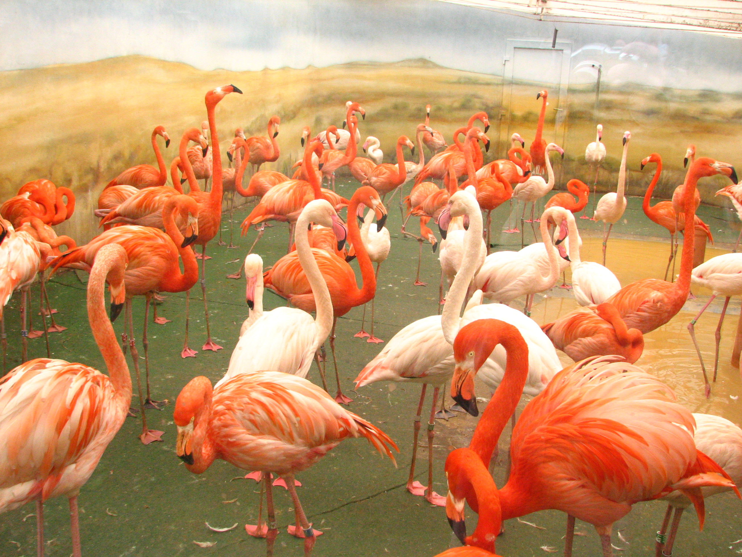 Phoenicopterus roseus (pale pink) & Phoenicopterus ruber (dark pink) in ZOO Dvůr Králové, Czech Republic